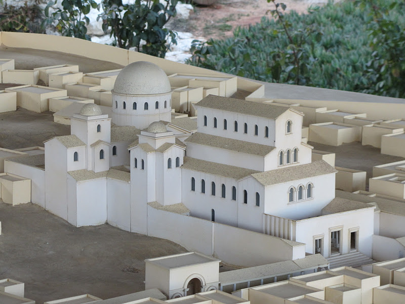 The model of the Holy Sepulchre in the Byzantine period at St. Peter's in Gallicantu; East Jerusalem